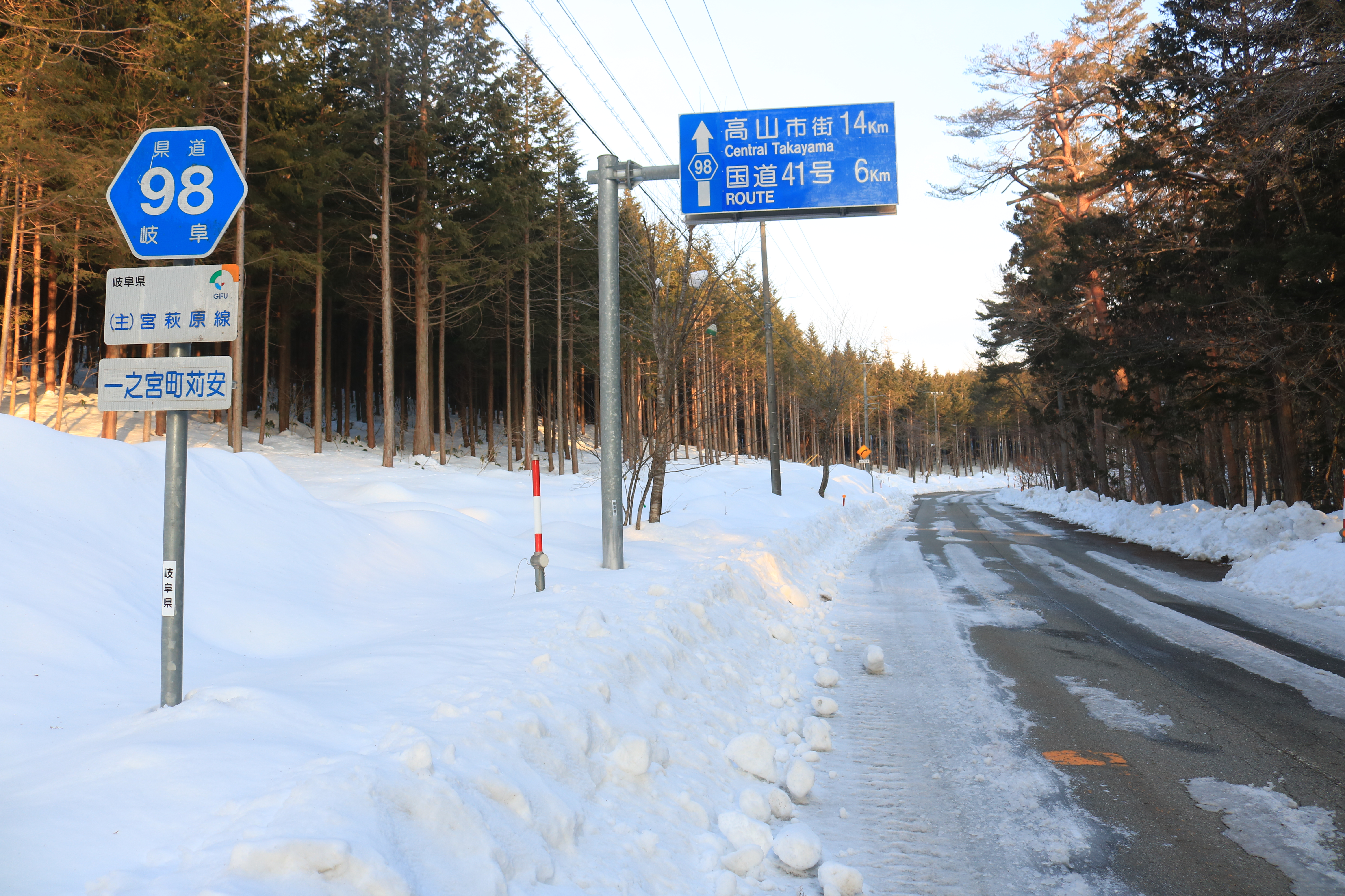 Gifu Prefectural Road Route 98 in Ichinomiyamachi, Takayama, Gifu Prefecture, Japan.